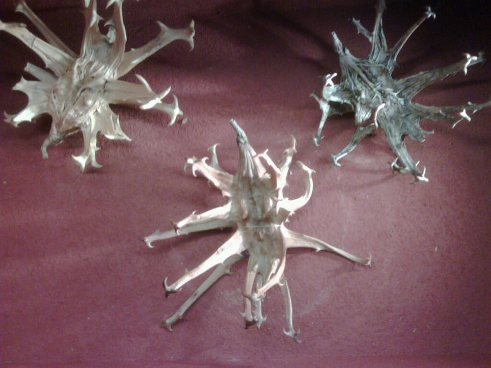 Teufelskralle